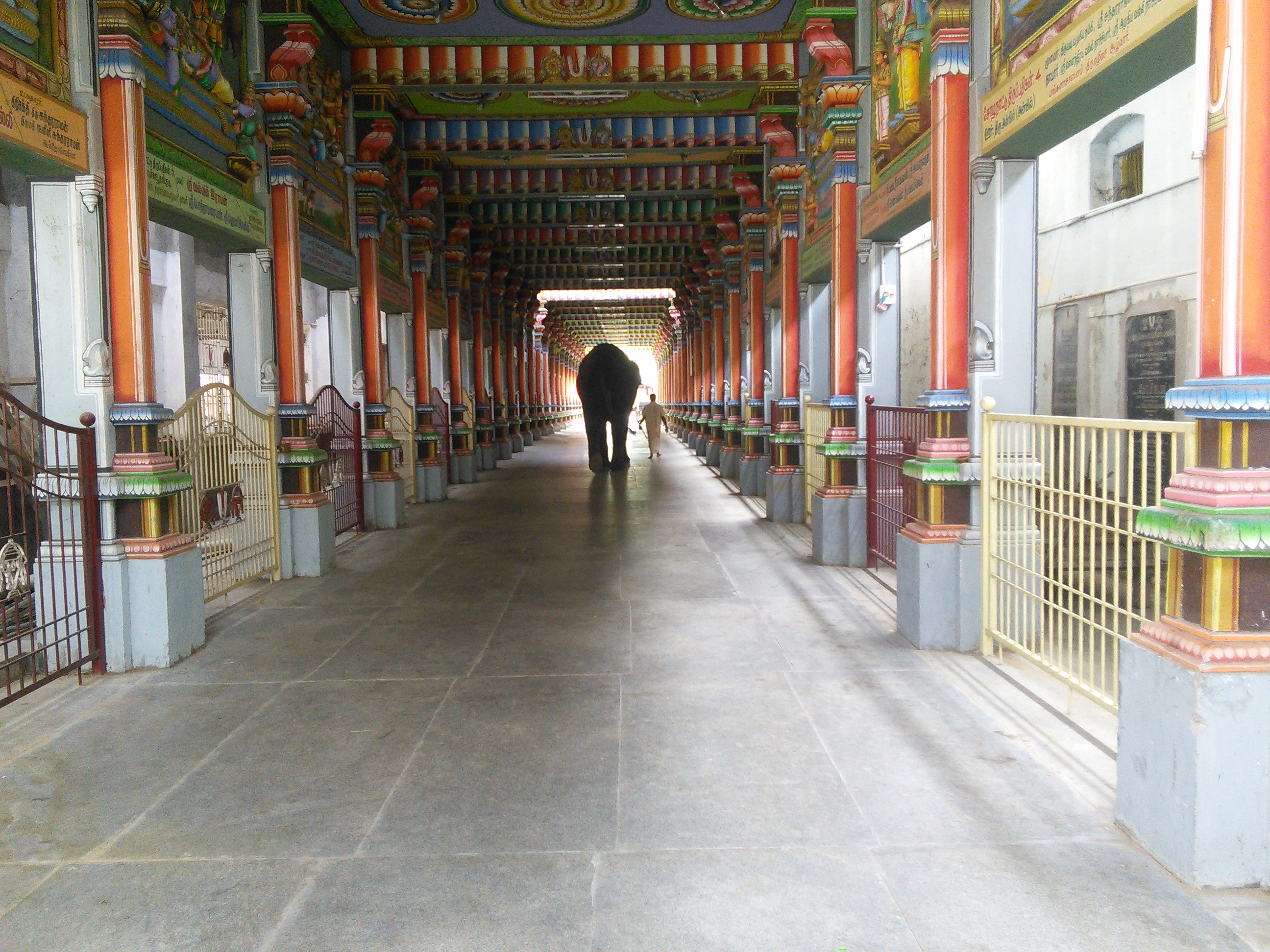 Elephant and mahout walking through the pillared hall at the Oppiliappan temple in Thirunageswaram, Thanjavur district.